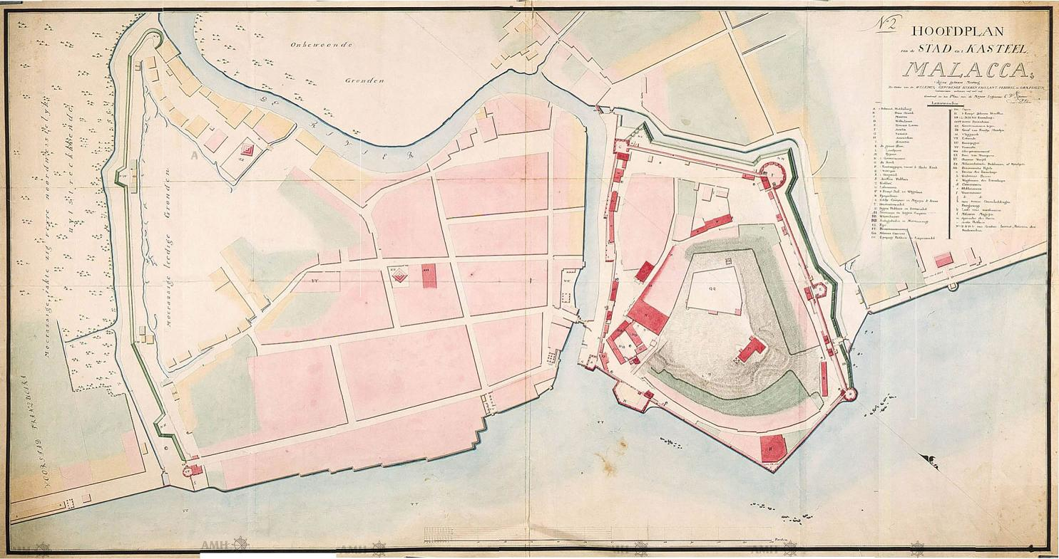 Map of the city and fort at Malakka (Melaka) Signed:P. Elias Date:ca. 1780 Category:drawing Technique:coloured drawing Size:79.5 x 150 cm Scale: 120 Roeden = 435 strepen; [Rijnlandse roeden] [1 : 1038] Inscription:Hoofdplan van de stad en Kasteel Malacca, volgens gedane meeting [...] Related to: VOC (Verenigde Oostindische Compagnie) Source: Dutch National Archive Remarks: According to the Leupe catalogue (NA), the original title reads: .